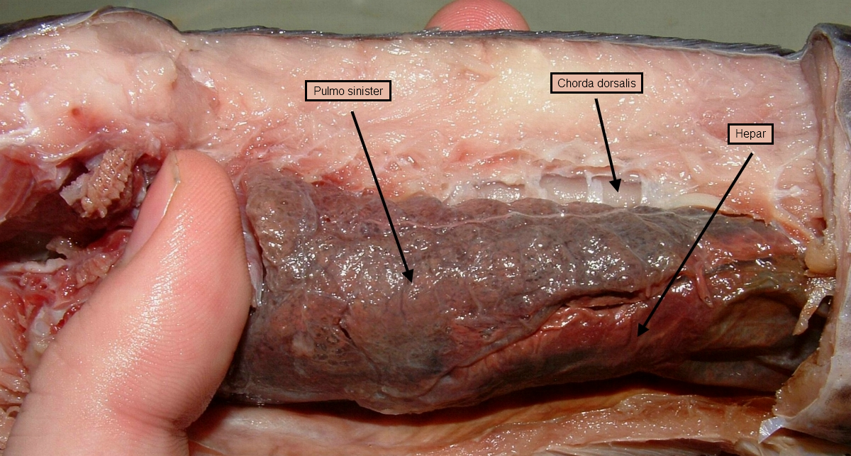 View of lungs and liver and notochord from the left side of a dissected Spotted African lungfish (Protopterus dolloi) with international anatomical terminology: left lung = Pulmo sinister liver = Hepar notochord = Chorda dorsalis (also known as notochord)